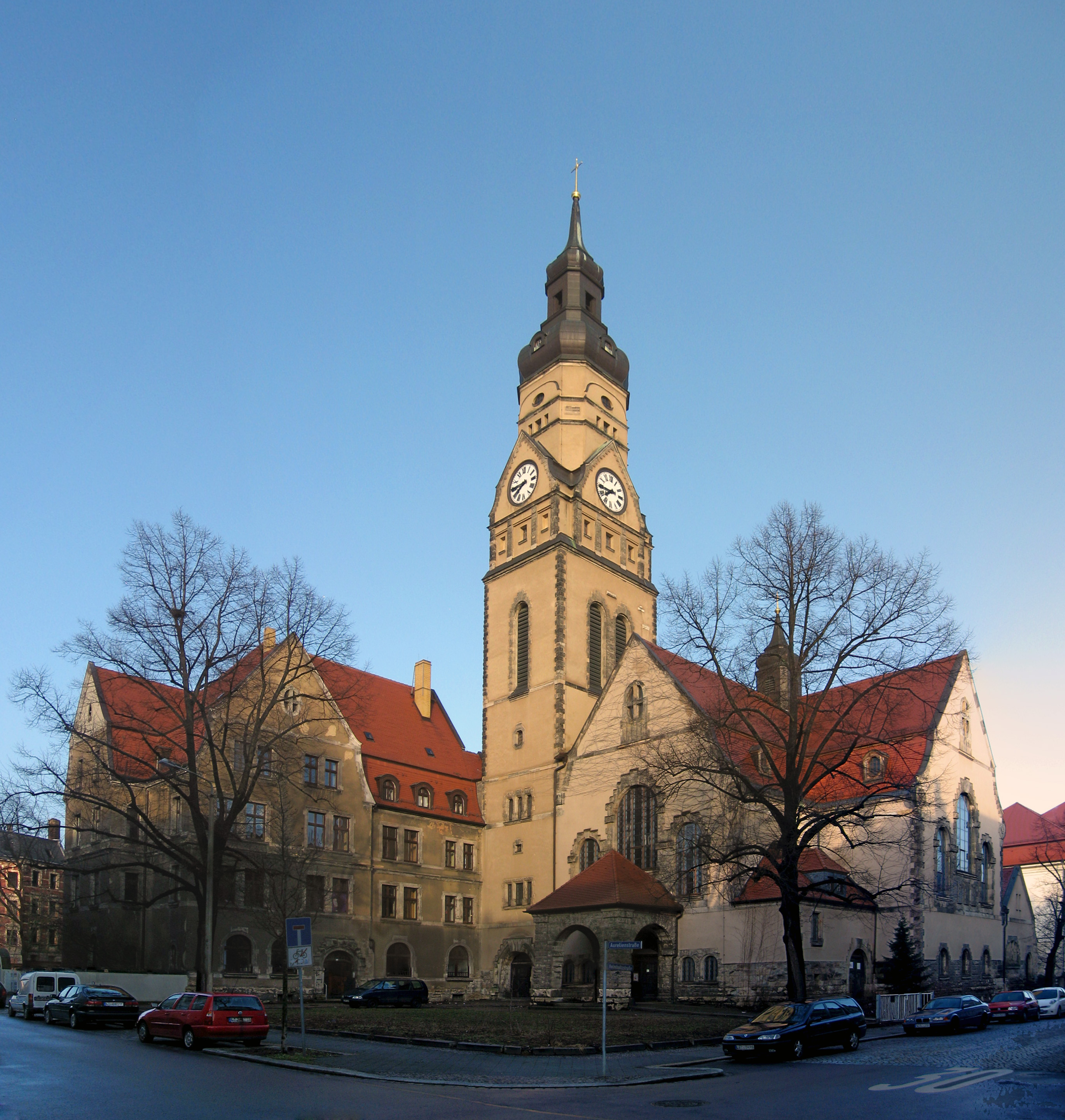 Philippus Church Leipzig, Aurelienstrasse 52